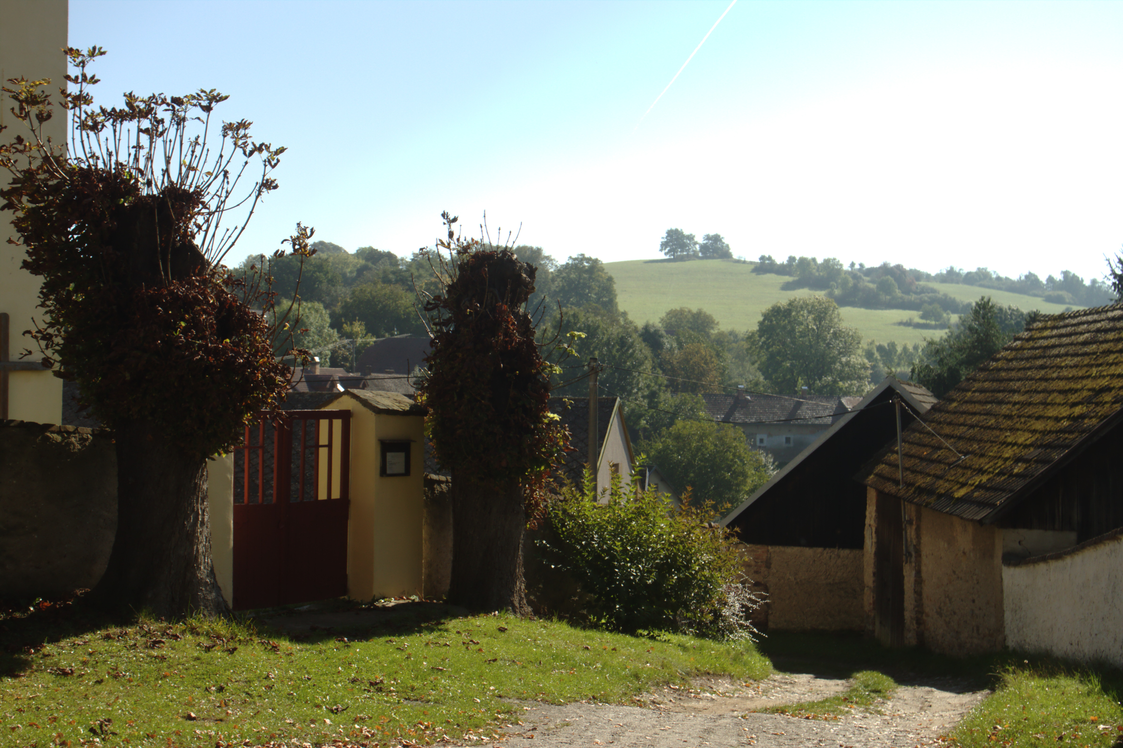 Various buildings in the village of Zdebuzeves, Central Bohemian Region, CZ